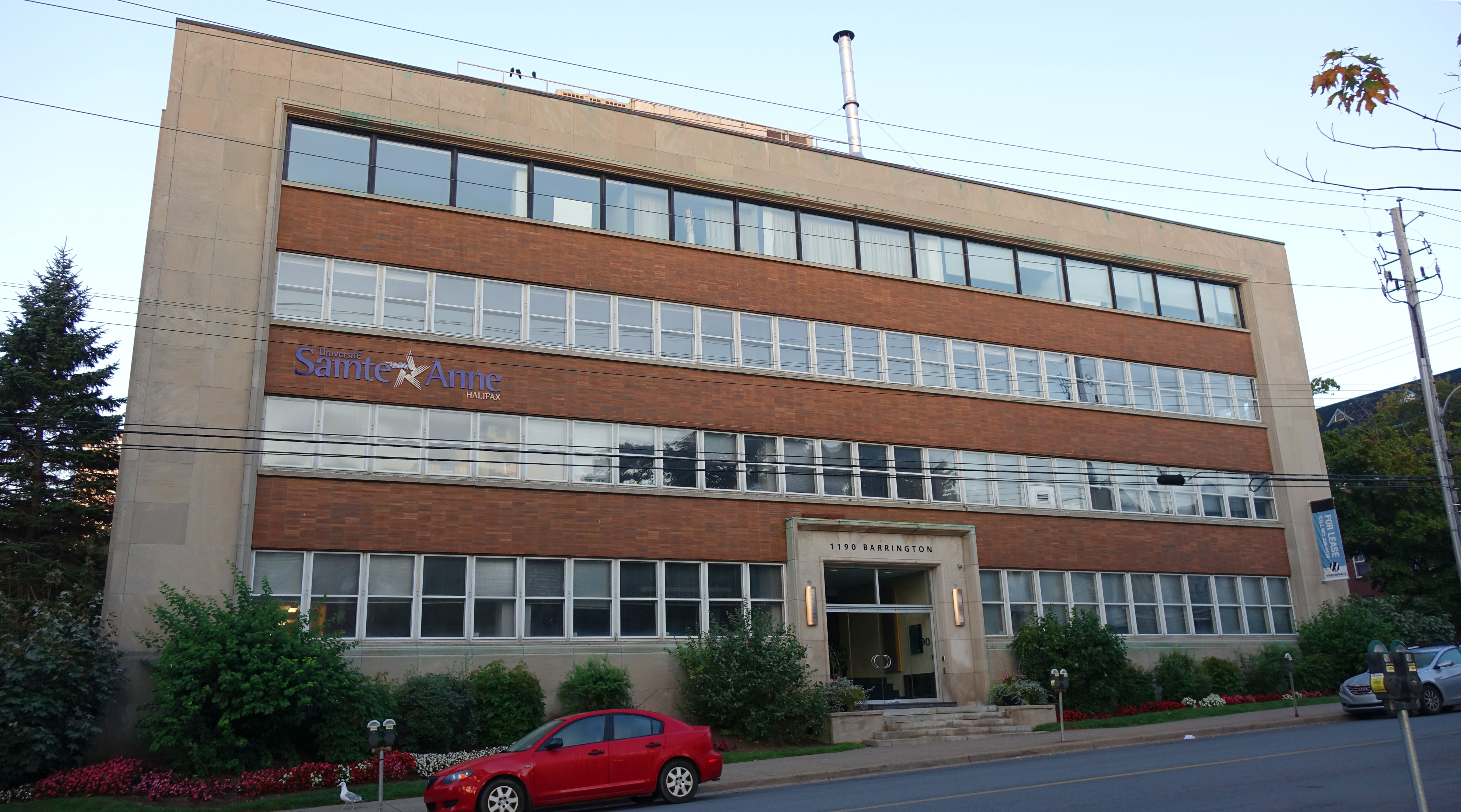 This photo taken on 15 September 2018 at 1190 Barrington Street in Halifax, Nova Scotia, Canada shows the Halifax Campus of Université Sainte-Anne.